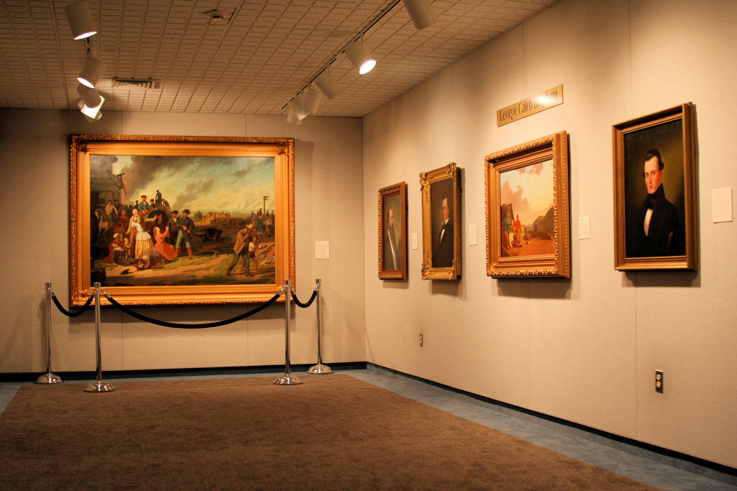 Photograph of the George Caleb Bingham gallery at the State Historical Society of Missouri.